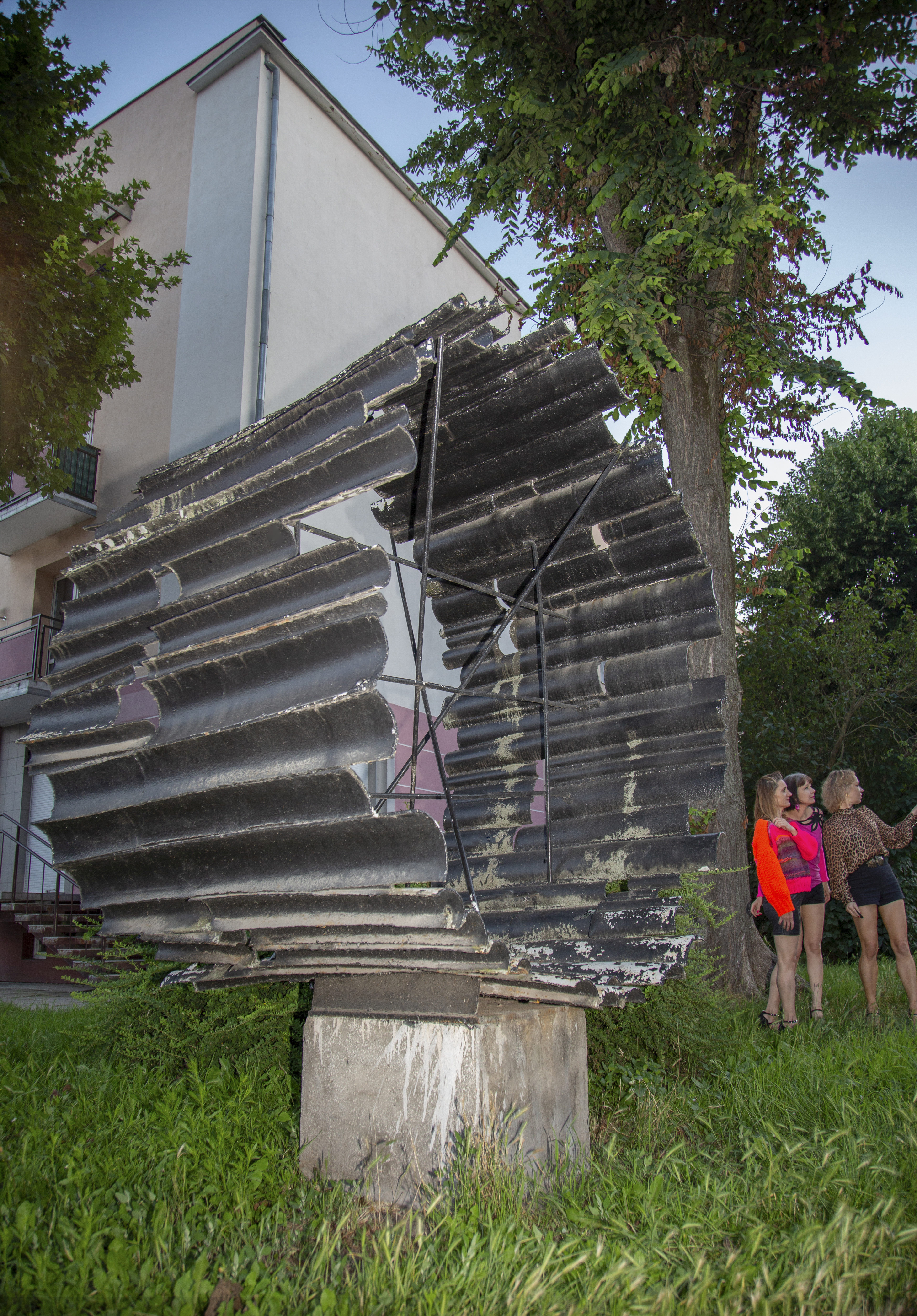 A 4-meter-high spatial form created by Krystyna Zieliński (collaborators: H. Szabłowski, S. Żukowski, Z. Jasiński) during the 1st Biennial of Spatial Forms in Elbląg (1965). The sculpture is located at the corner of Giermków street and School street . In the background, curator Karina Dzieweczyńska and visual artists: Iwona Demko and Agata Zbylut while working on the project entitled "Congress of dreamers / Kongres Marzycielek” carried out at the Art Center Gallery EL.